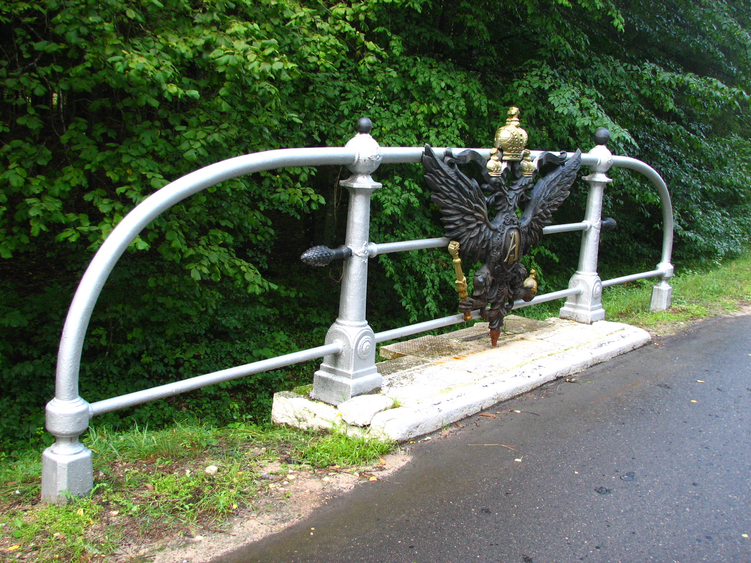 The road through ::Białowieża Forest|Beławieża Forest in Belarus